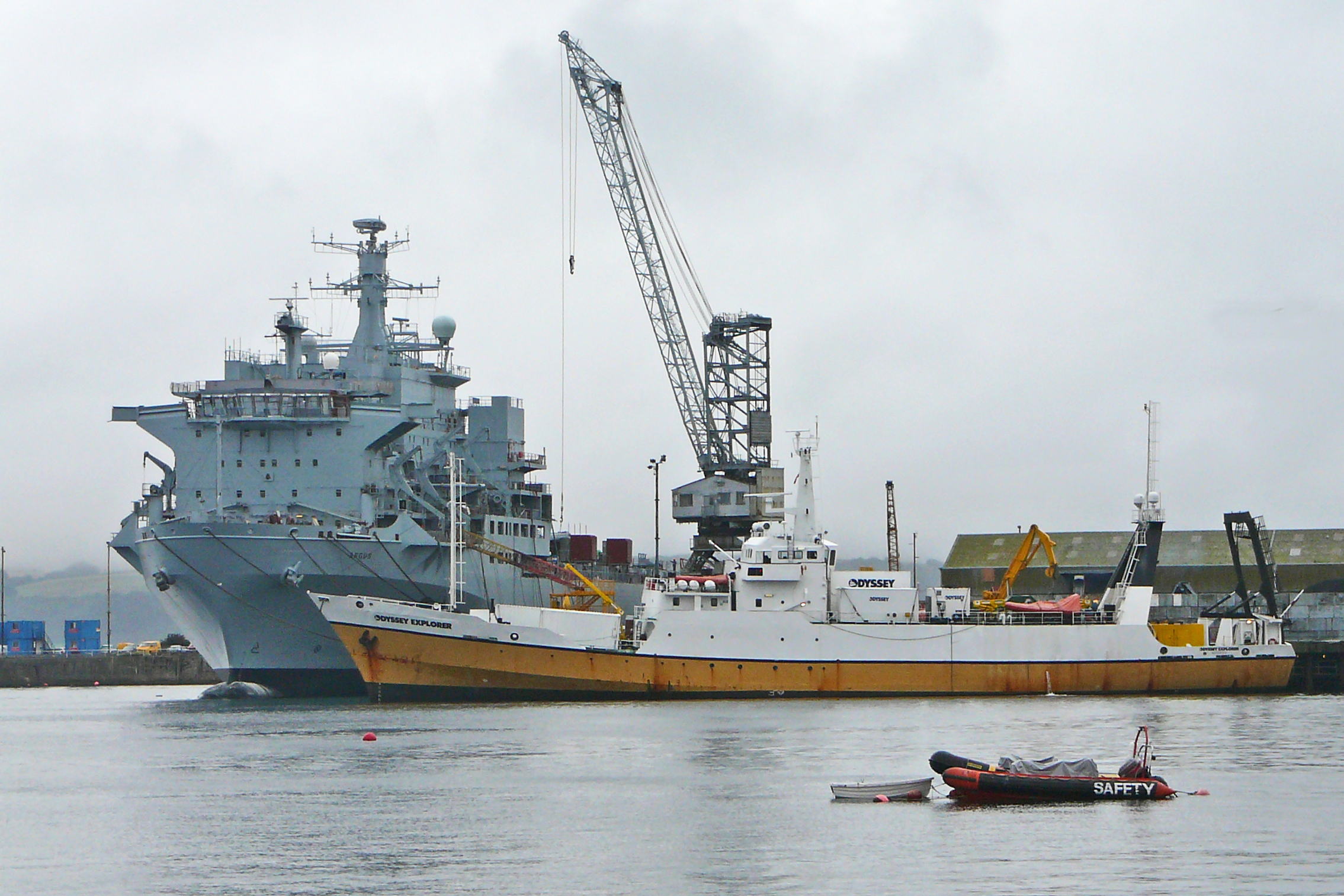 in Falmouth Docks.